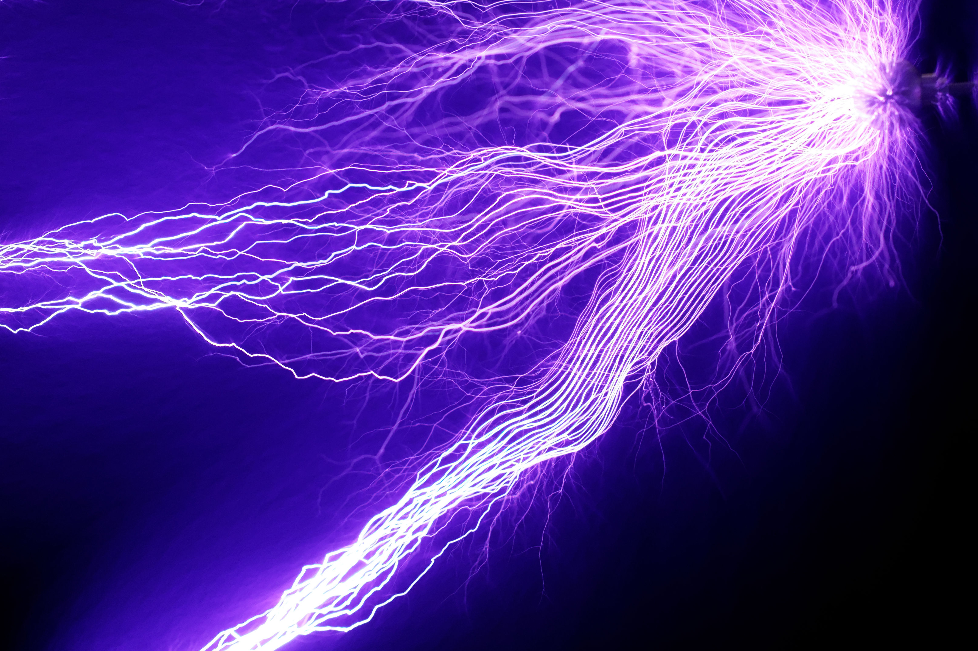 40cm-arcs generated by my 225W-Tesla coil. 1s shutter speed.